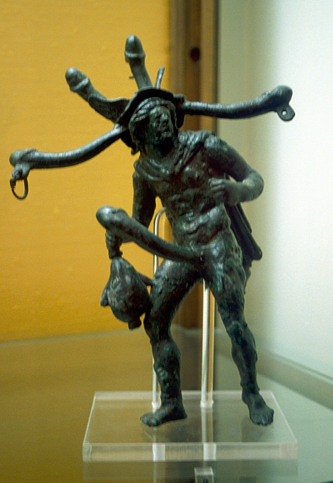 Bronze figurine with phalluses (Naples Archaeological Museum, Italy; inv. nr. 27854), from Pompeii. The Pompeian Mercurius tintinnabulum. It has an attachment for a bell on his phallus, and also attachments on the two long phallic ‘antlers’ on his head. The little bells are lost.